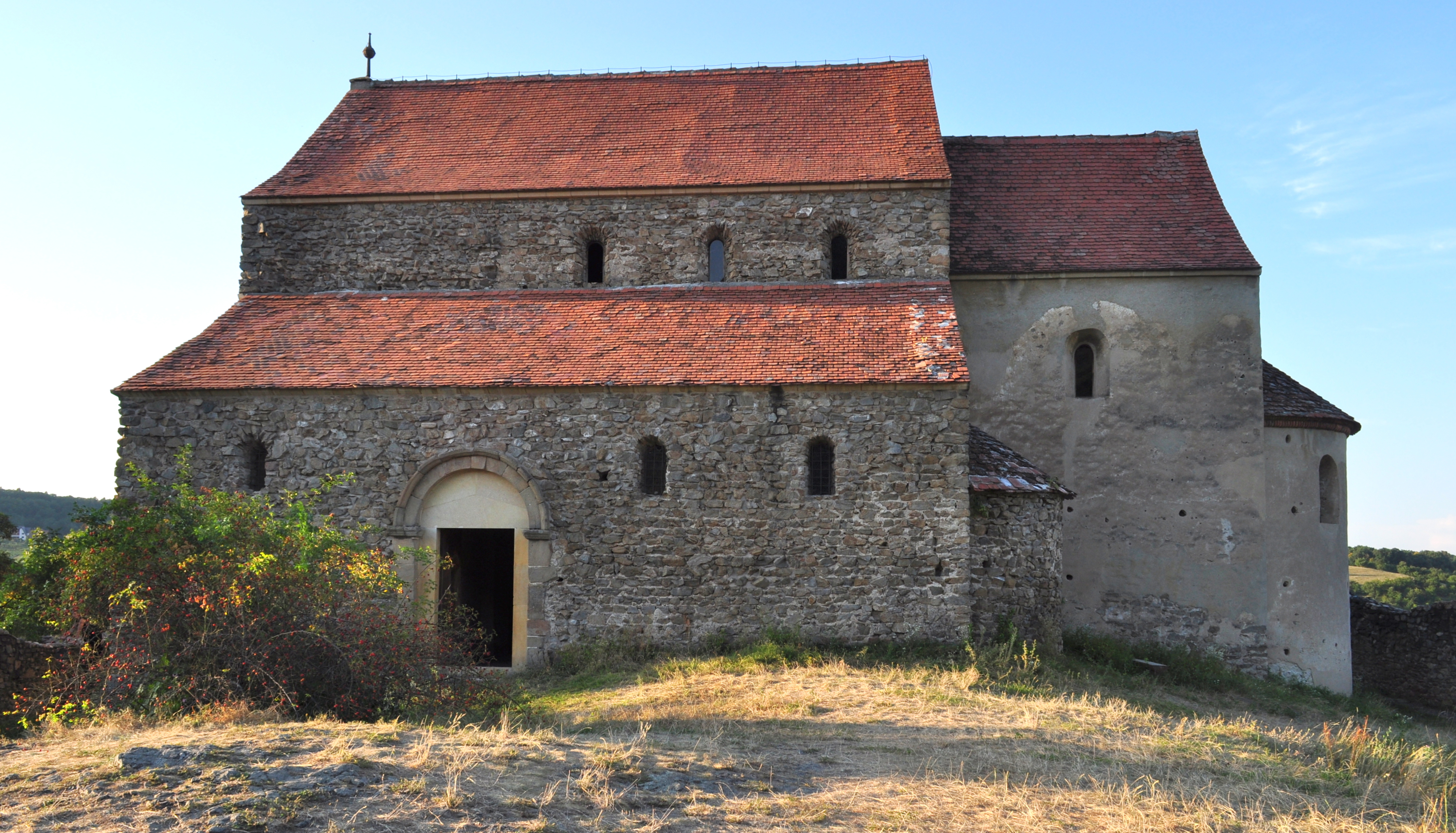 The Ensemble of The ”Saint Michael” Lutheran church in CisnădioaraRomână: Ansamblul bisericii evanghelice „Sfântul Mihail” din Cisnădioara